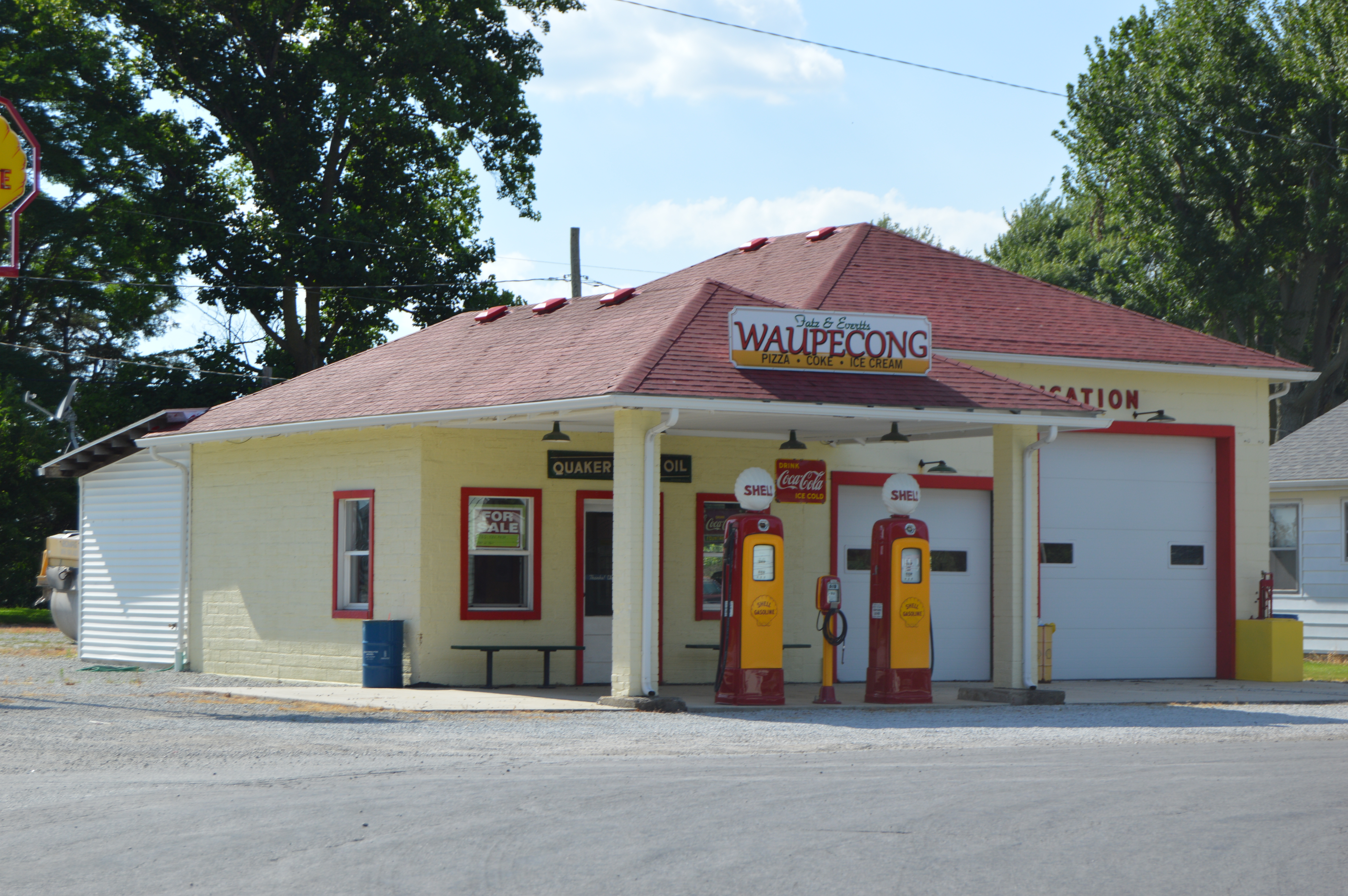 Front and southern side of a former Shell gas station (now apparently just a convenience store) on State Road 18 at Wawpecong, Indiana, United States.